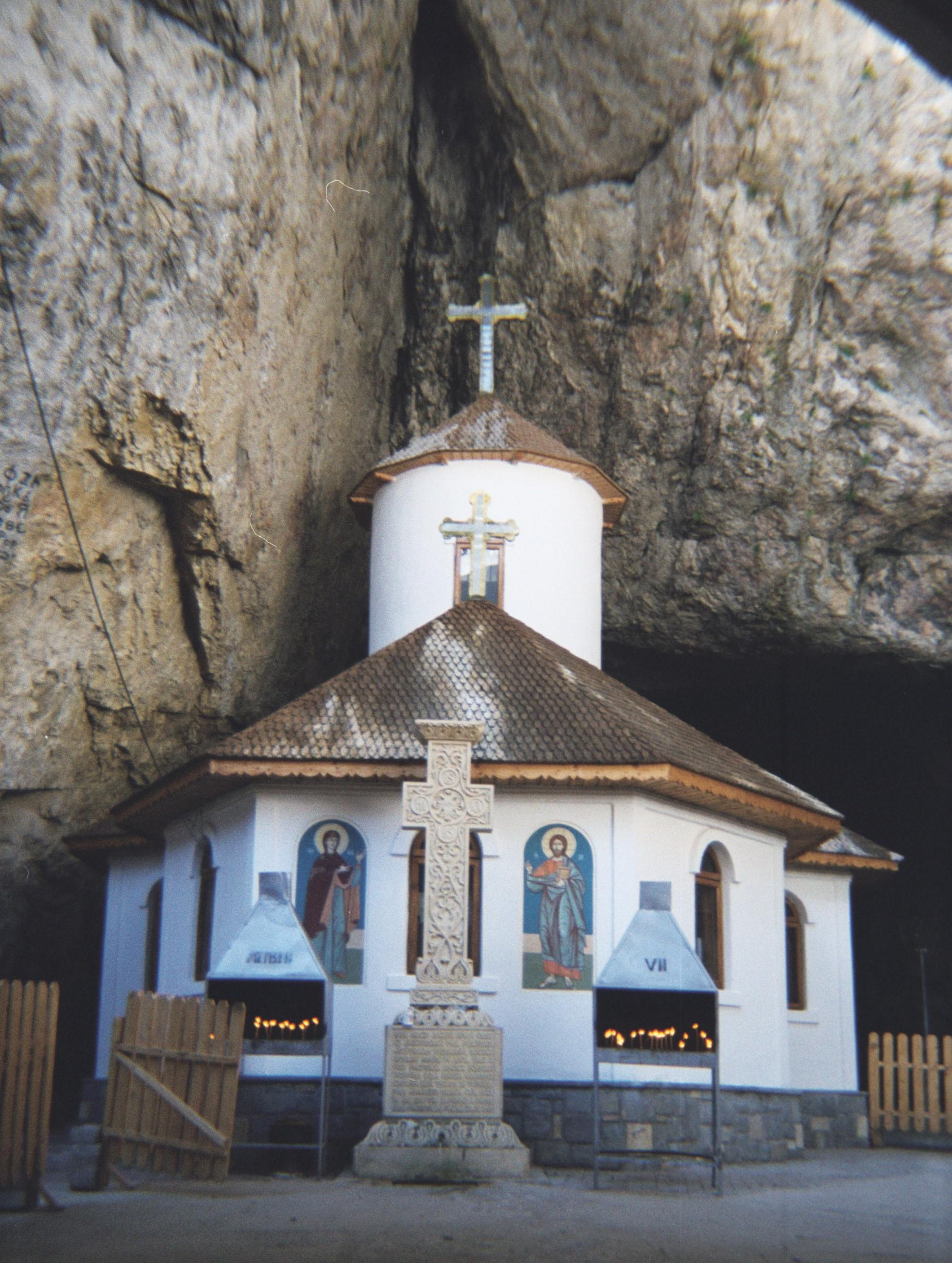 An abbey at the entrance of the Ialomicioara Cave. Same thing, in 1943 (seen from inside the grotta)